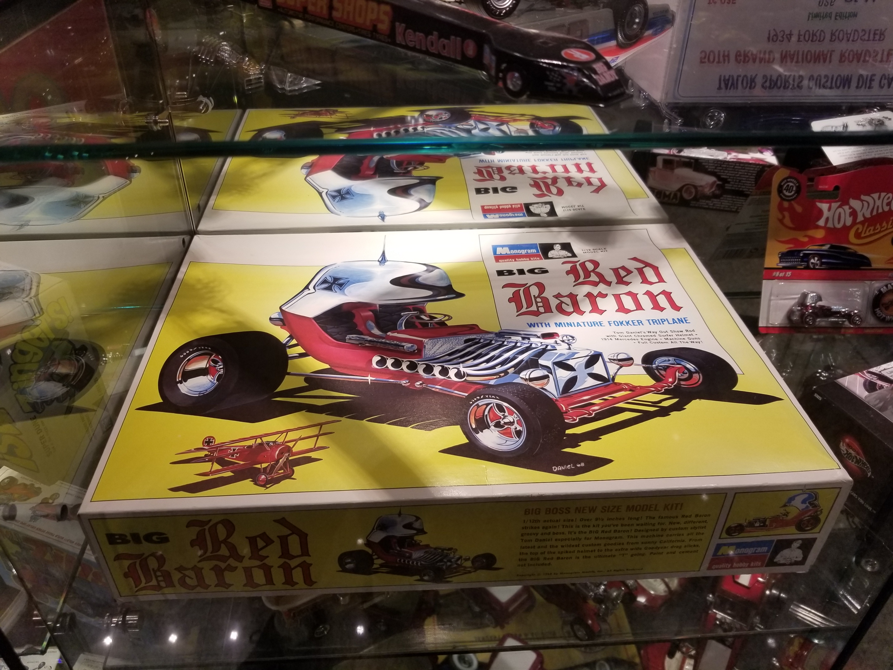 The model kit that inspired the Red Baron custom car. This box is on display at the Museum of American Speed in Lincoln, Nebraska.